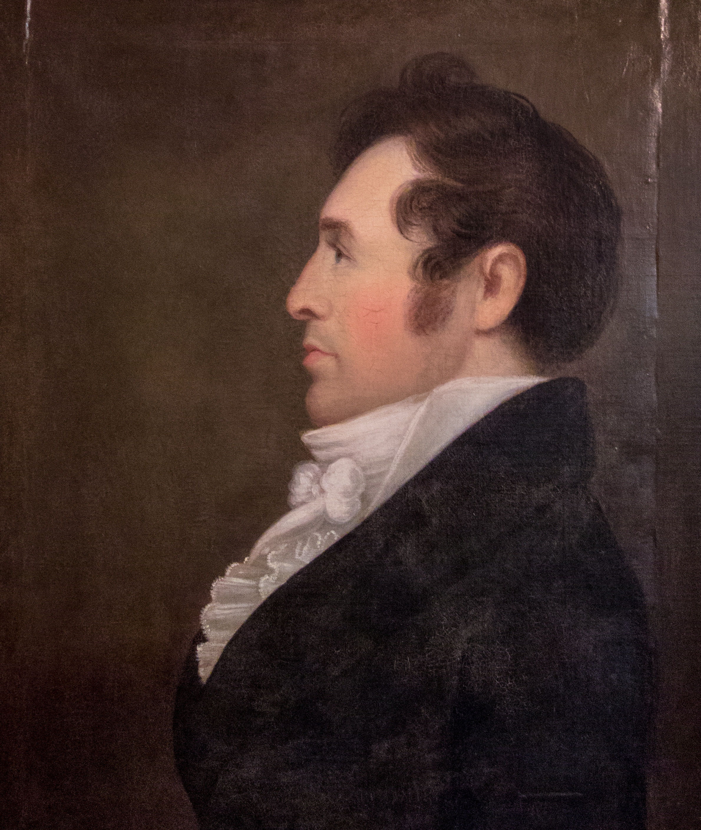 James Brown Mason. Portrait by Francis Alexander (1800-1880). Oil on canvas, 1819.